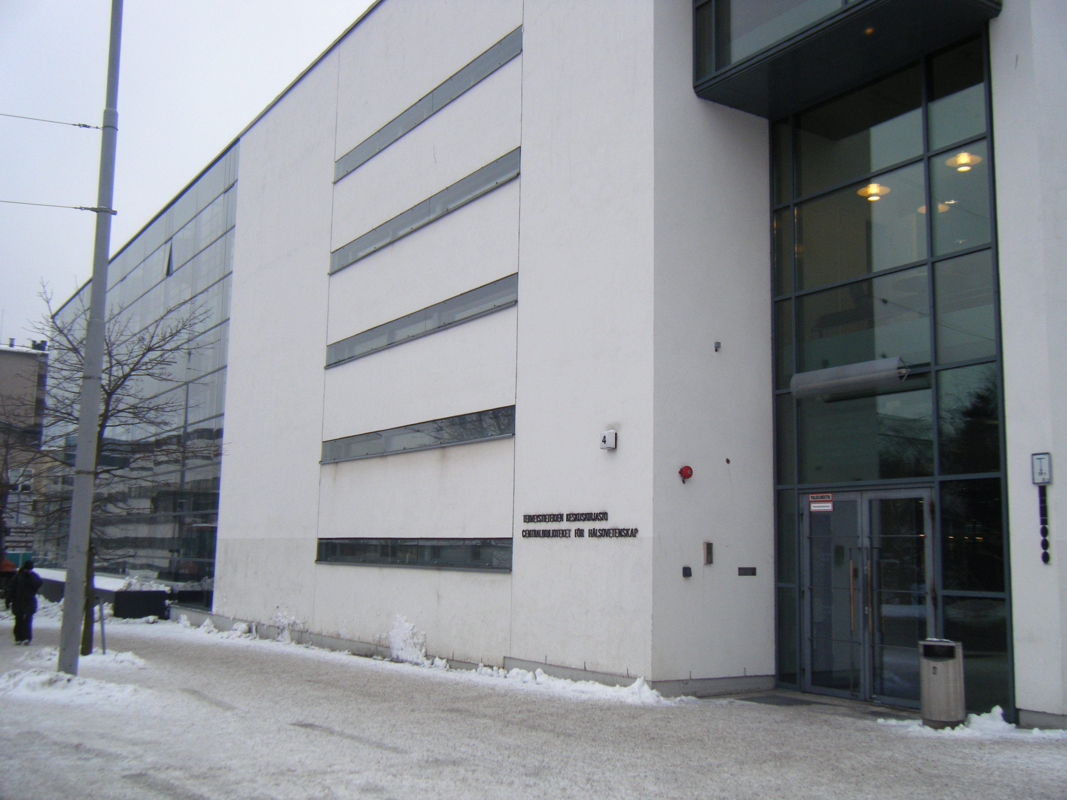 National Library of Health Sciences - Terkko, in Helsinki, Finland